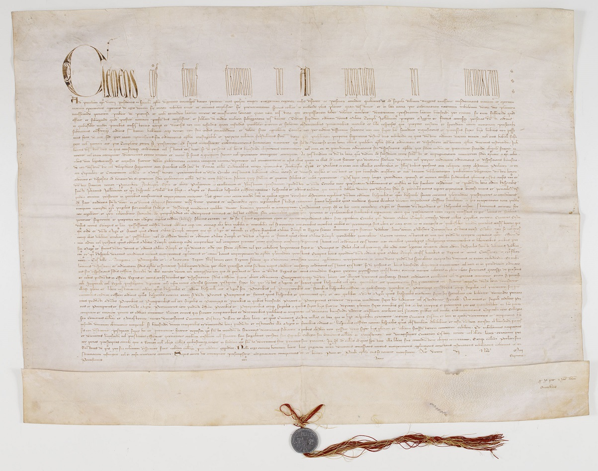 Bulle "Ad Providam", issued by Pope Clement V on May 2nd, 1312, handed over all Templar assets to the Hospitallers. French National Archives